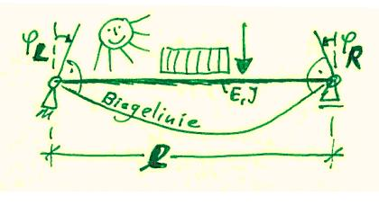 Elastic line of a single-span beam due to heat, single- and line load. Twistings left and right are shown.